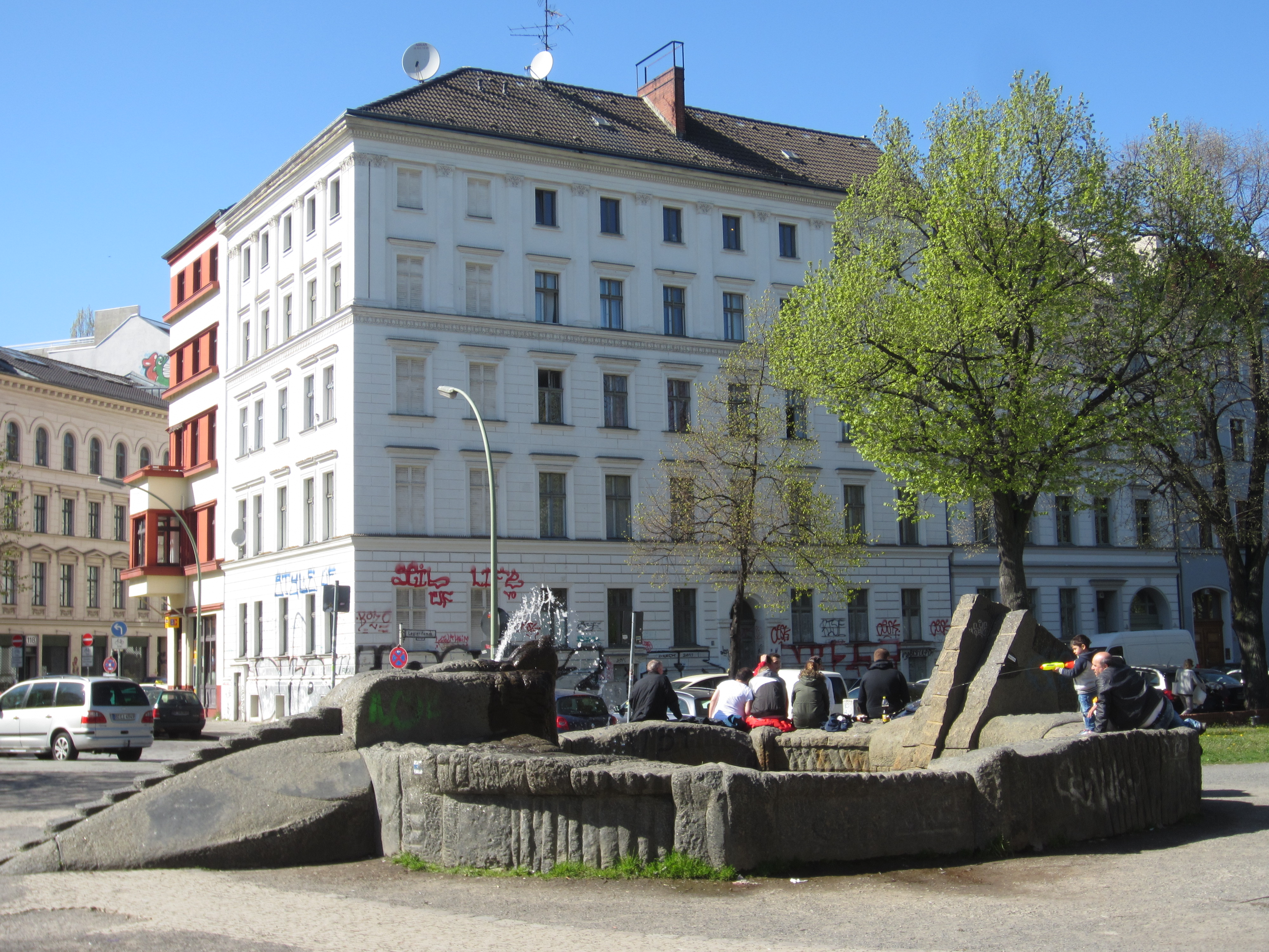 Berlin, Germany (April 2016)